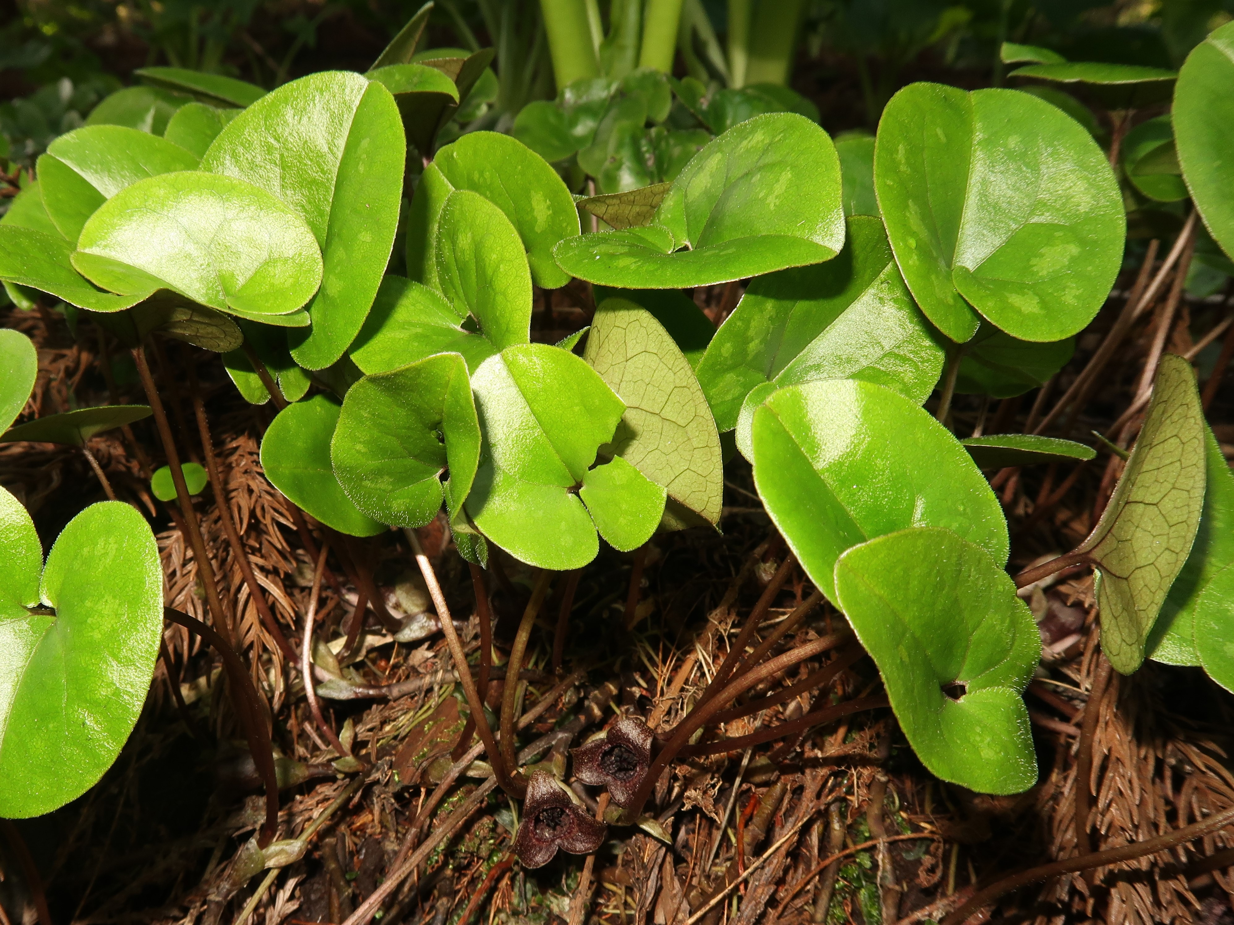 Asarum fauriei, Uonuma city, Niigata pref., Japan